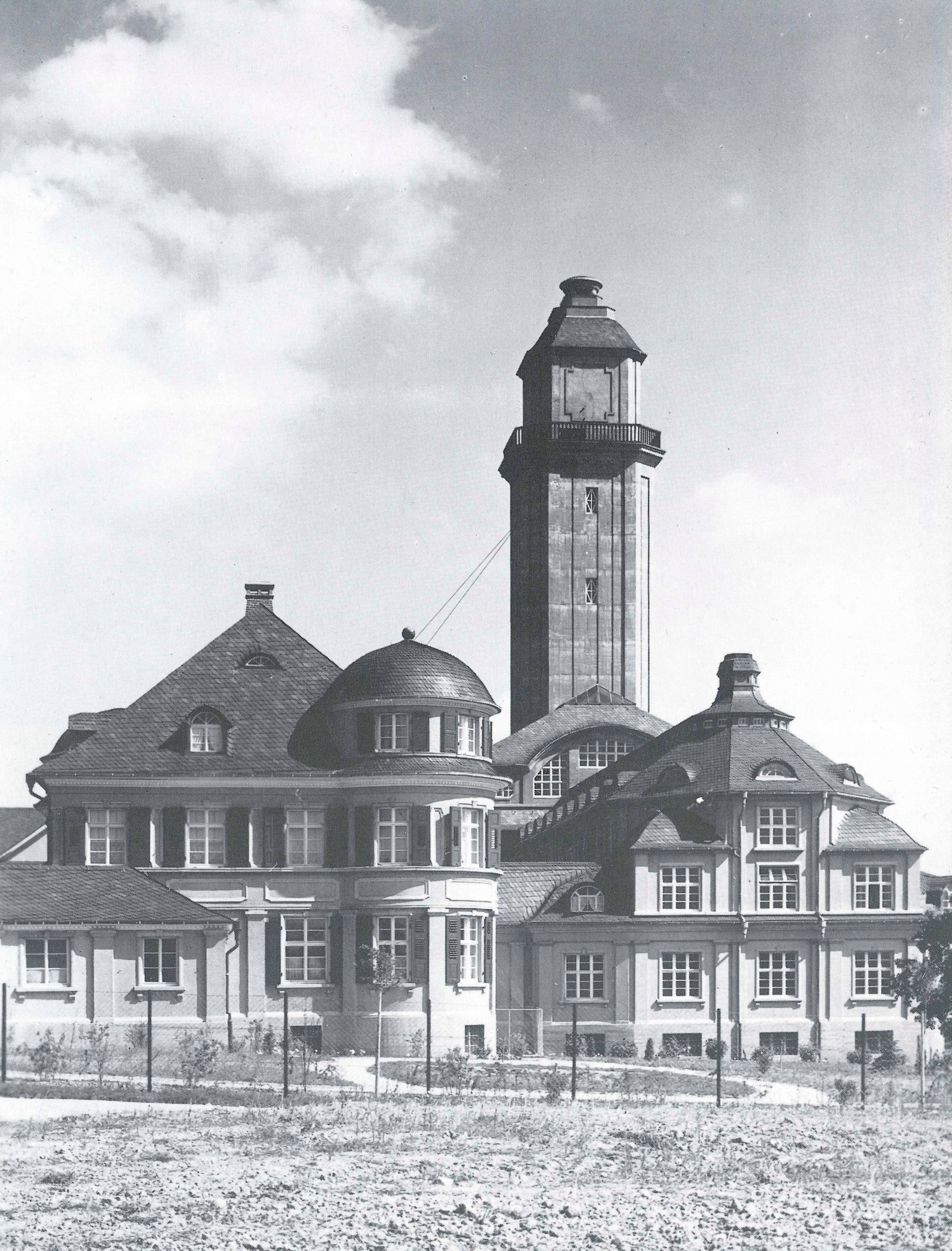 Dr. Geier mine near Bingen.